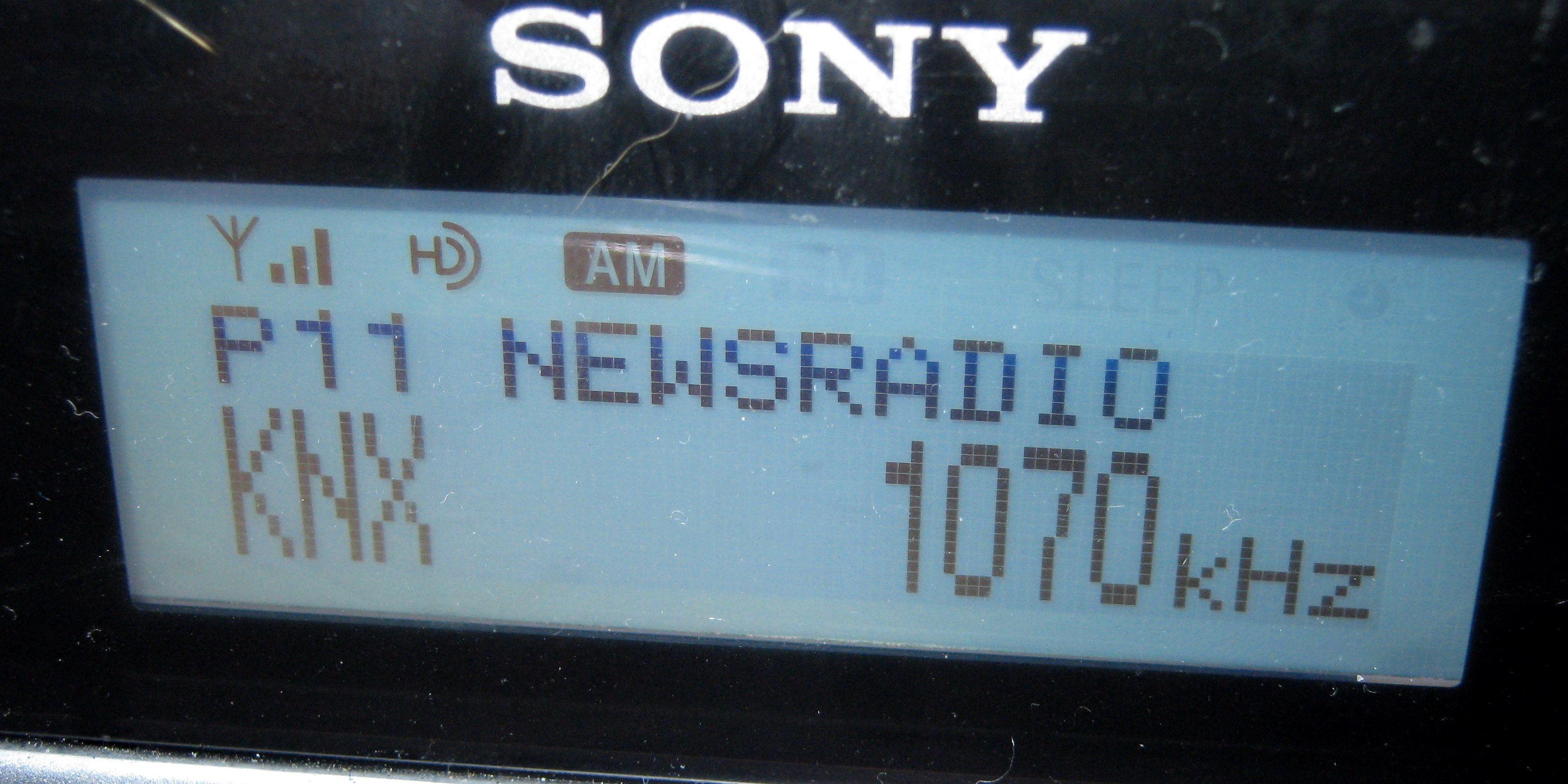 KNX 1070 Los Angeles, California locks on an HD Radio from 720 miles away. Also used on: since it is my website. Used to illustrate HD Radio or KNX or both. Radio is a Sony XDR-F1HD.